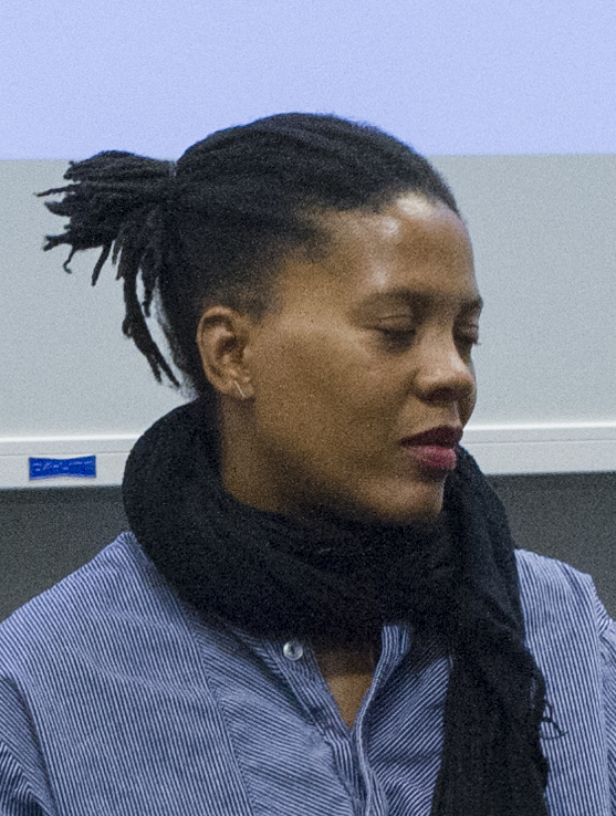 Xaviera Simmons at the Performing History event at Columbia GSAPP